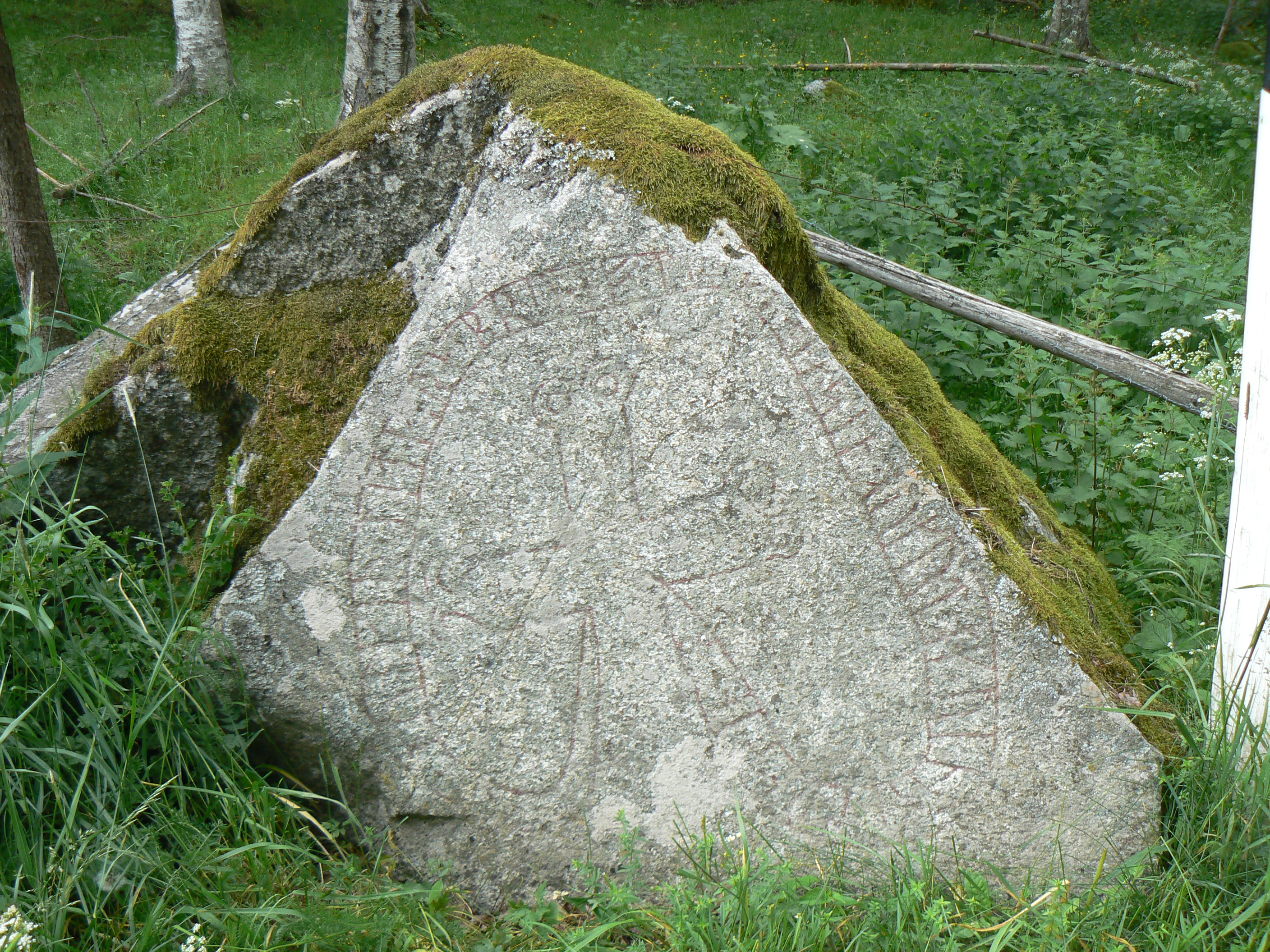 Västmanlands runinskrifter 31 ("Runic Inscriptions of Västmanland 31"), runic inscription in boulder north of Sala in Sweden.